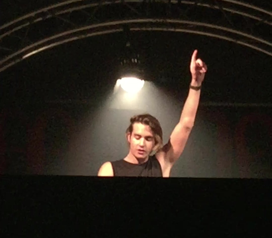 Danny Ávila playing live at Airbeat One Festival 2016 in Germany